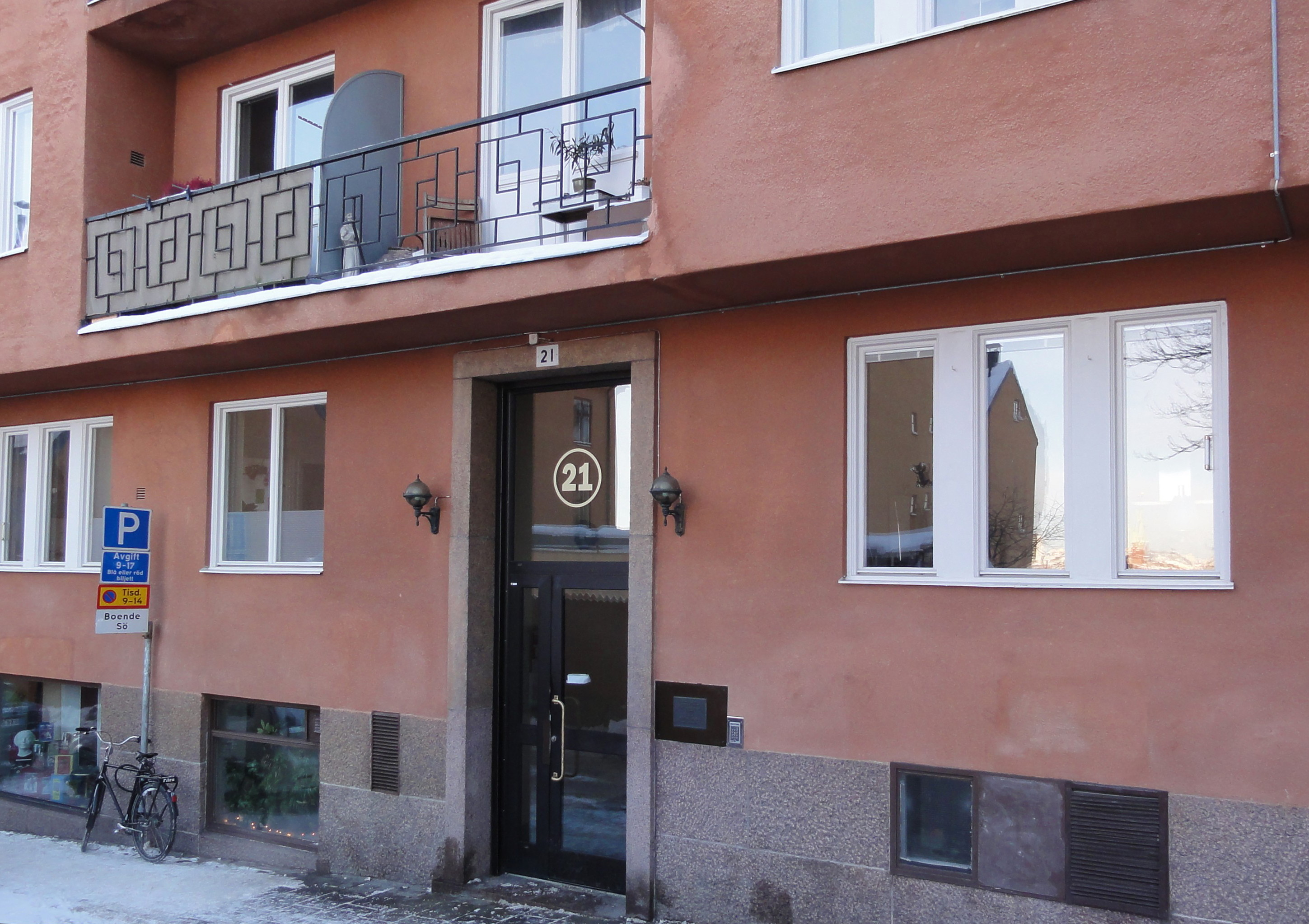 The house where the swedish author Ivar Lo-Johansson used to live. It is located across the street from the Ivar Lo Park at 21 Bastugatan and houses an Ivar Lo-Johansson museum